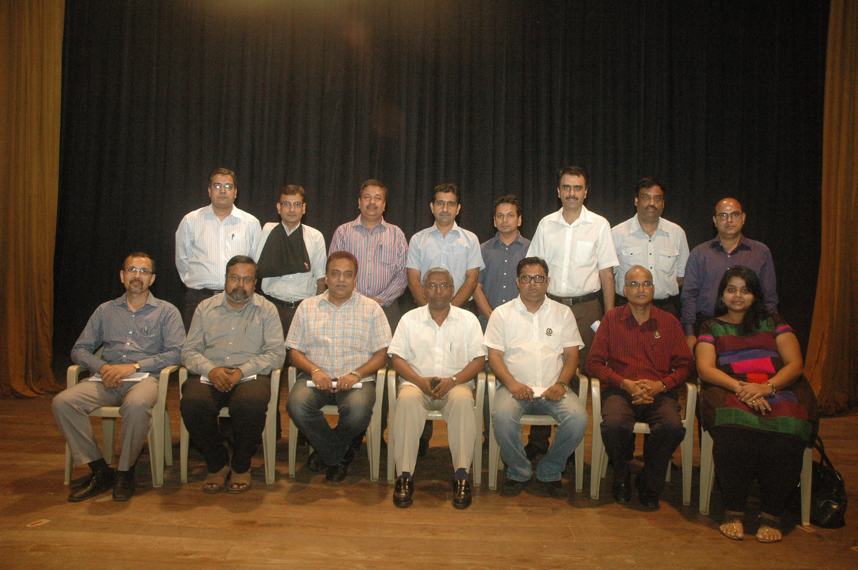 St.Xaviers College, Kolkata - Alumni association